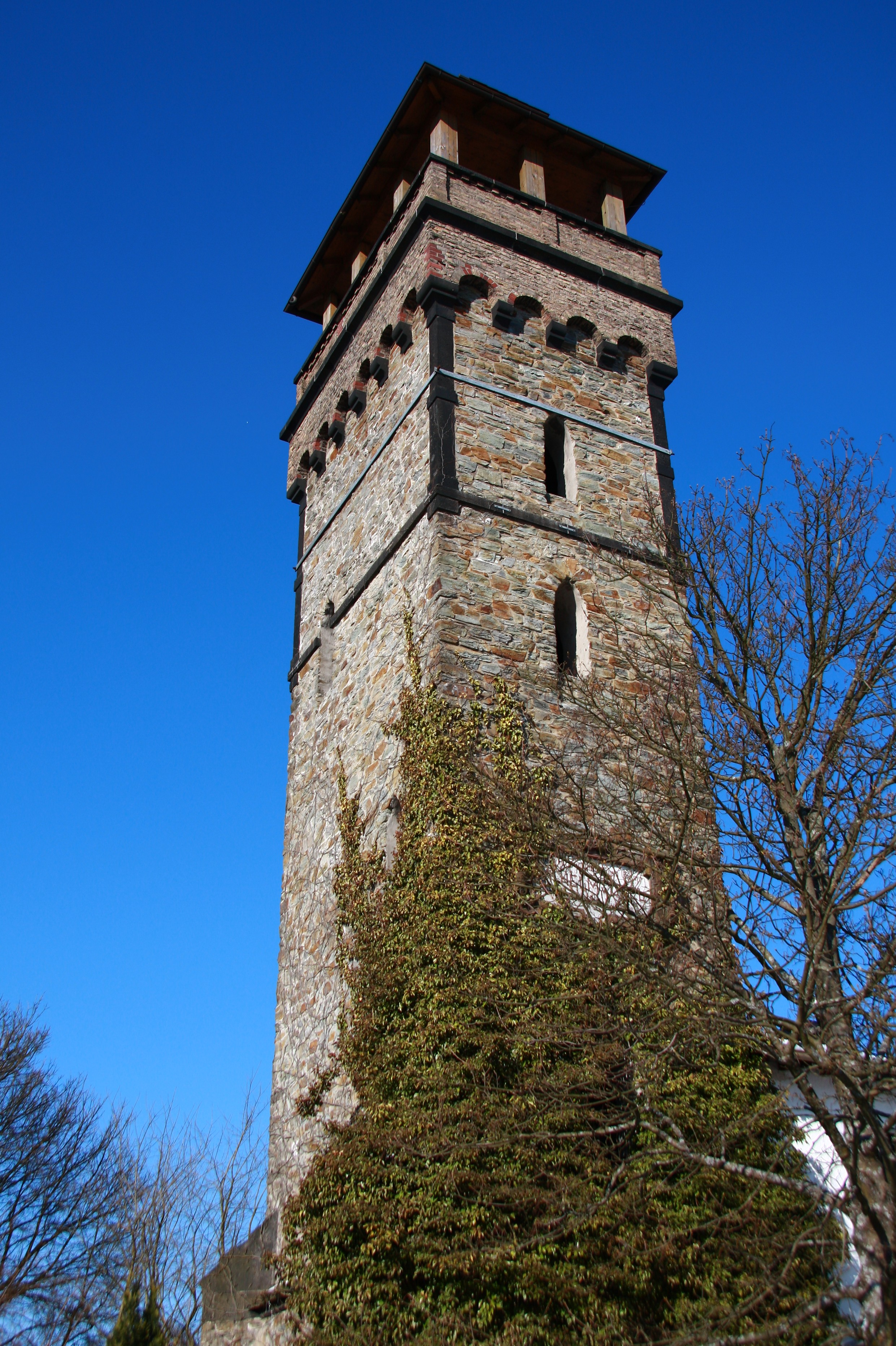 A A look-out on top of the Hessian Mountain Kellerskopf in the Taunus mountain range